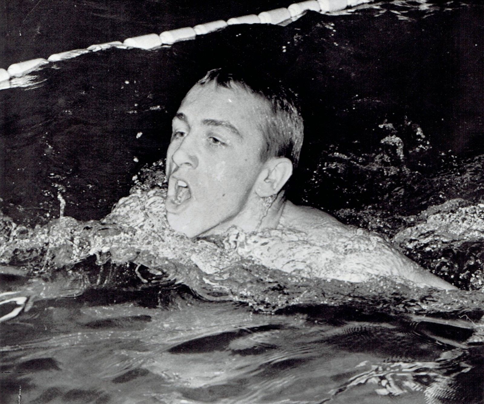 1961 Wire Photo USC swimmer Chuck Bittick wins 400-yard medley event at AAU